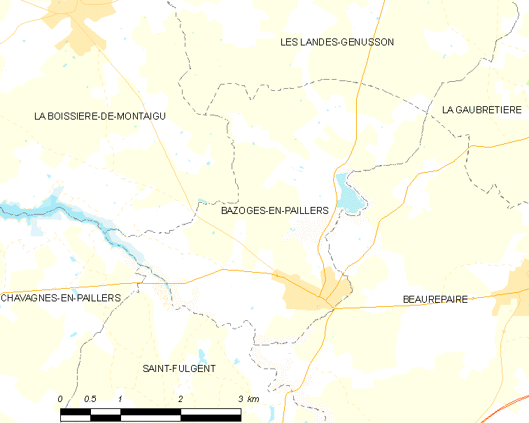 Map of French municipality Bazoges-en-Paillers